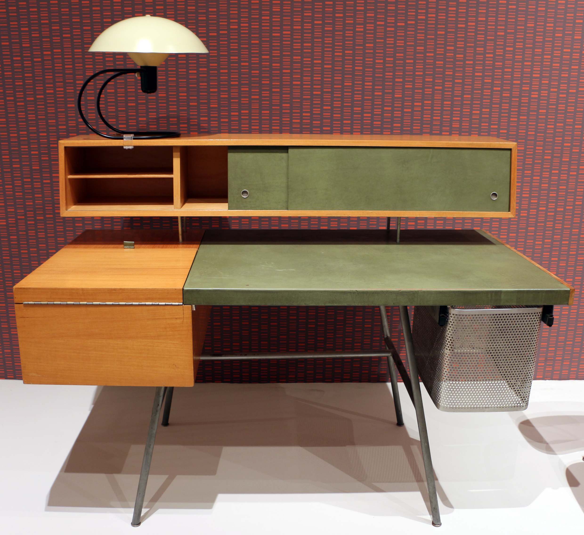 Furniture in the Milwaukee Art Museum